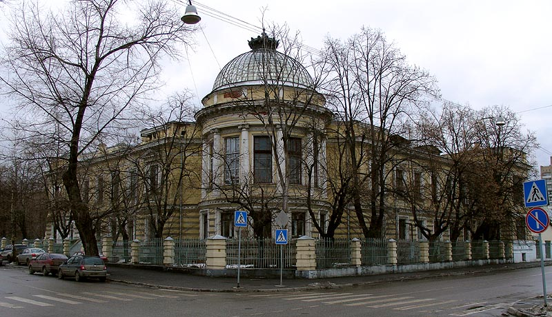 Devichye Pole, Moscow, Medical Campus - Clinics